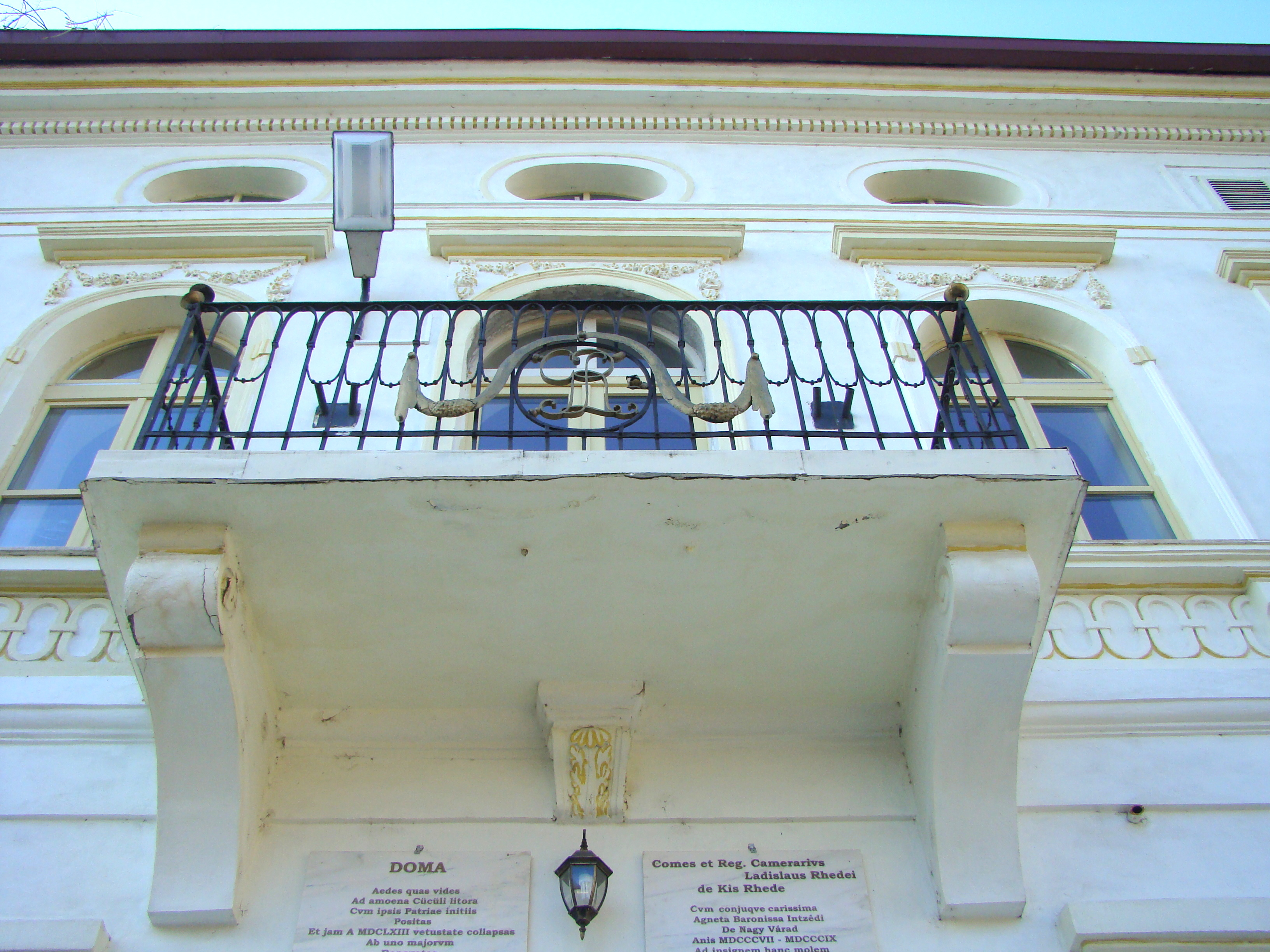 The Rhédey castle in Sângeorgiu de Pădure, Mureş county, Romania